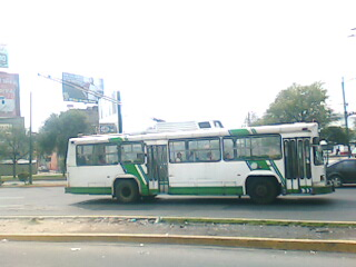 trolleybus in Mexico City